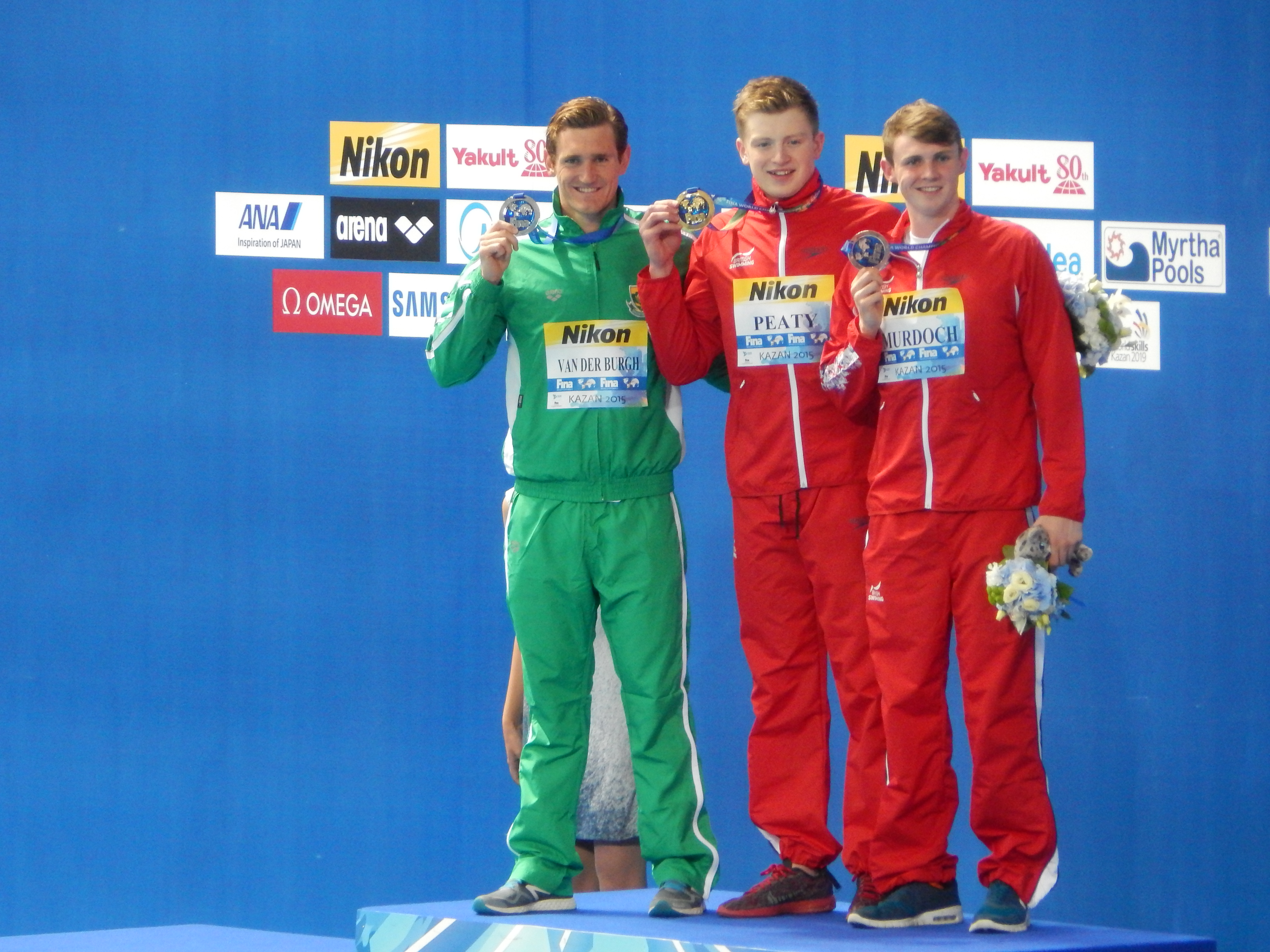 Medallists at the men's 100 metres breast in Kazan 2015